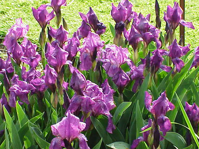 Species: Iris germanica Family: Iridaceae Image No. 2